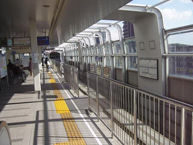 Interiors of Shōji Station (Toyonaka)